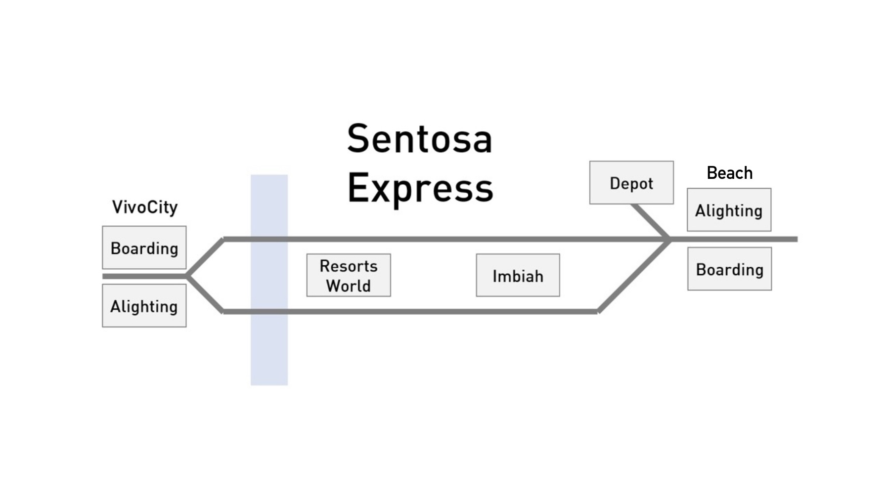 Track Diagram of Sentosa Express, Blue line represents the water separating Mainland and Sentosa Island, Grey box represents a station or depot